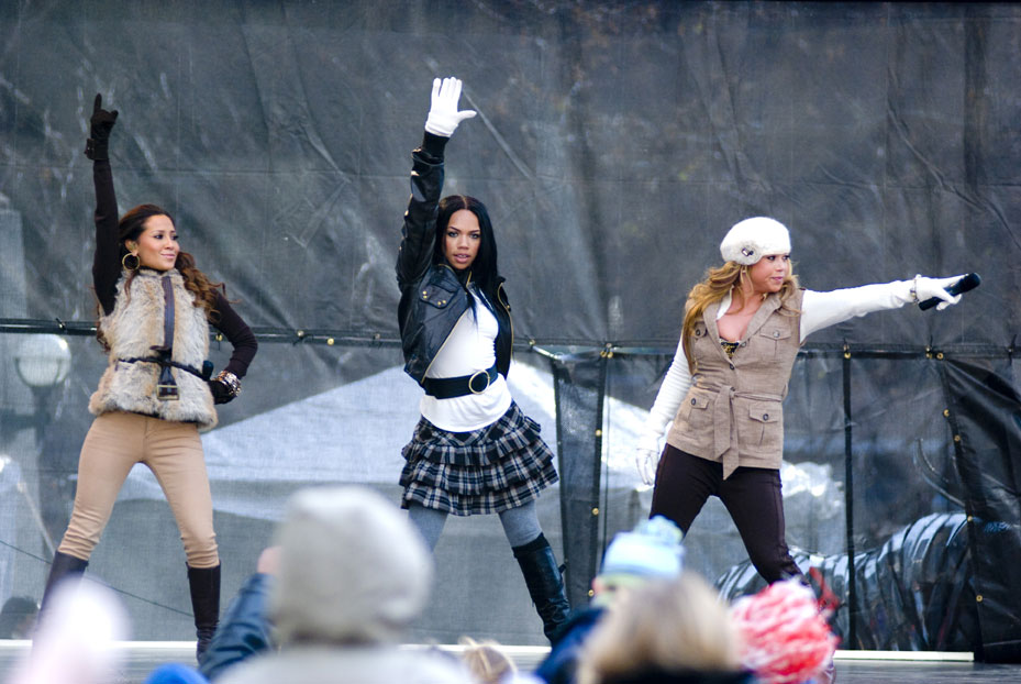 Radio Disney Presents The Cheetah Girls at The Magnificent Mile 2008 Lights Festival